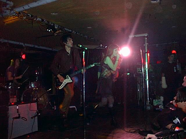 BOSS HOG Live at the Middle East,Cambridge,Massachusetts,USA,1998/02/05